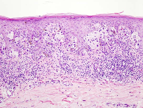 Histopathologic image of malignant melanoma (Case 01). Skin biopsy. The same case as illustrated in a file "Malignant_melanoma_(1)_at_thigh_Case_01.jpg". H & E stain. This case may represent superficial spreading melanoma[1]